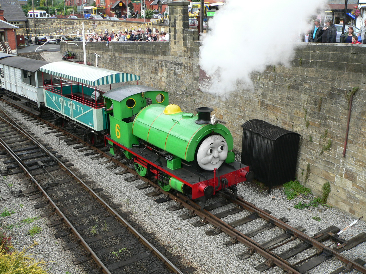 Percy the Small Engine, an 0-4-0 tank locomotive, from the Thomas the Tank Engine and Friends books and TV series. Photographed on 14 August 2005 at Llangollen station during a Days Out With Thomas event on the Langollen Railway. Photographed from the town bridge in Llangollen.